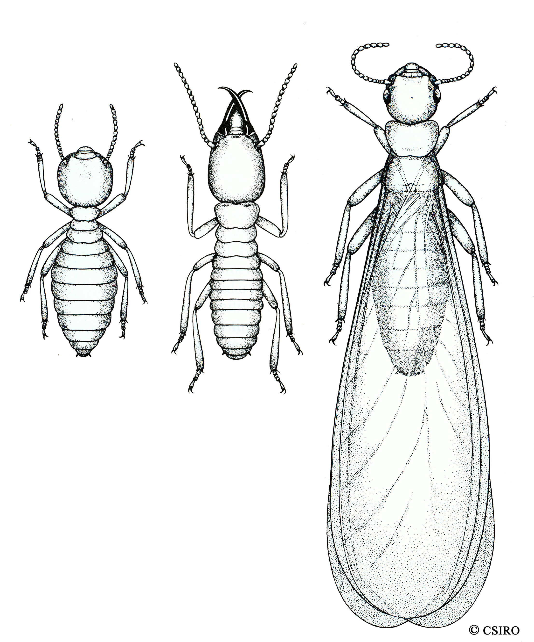 Coptotermes acinaciformis